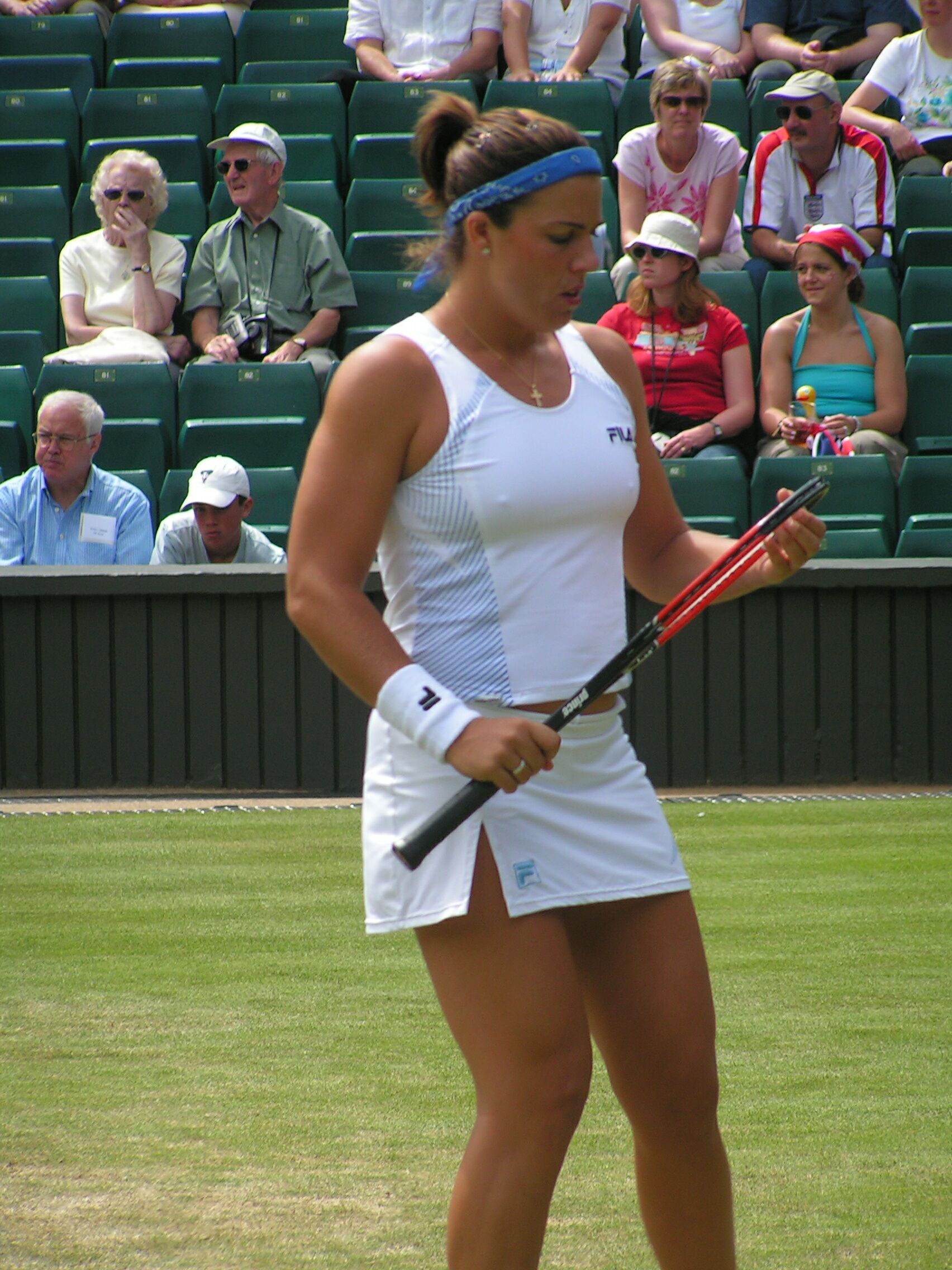 Jennifer Capriati at the Wimbledon tournament, 2004.